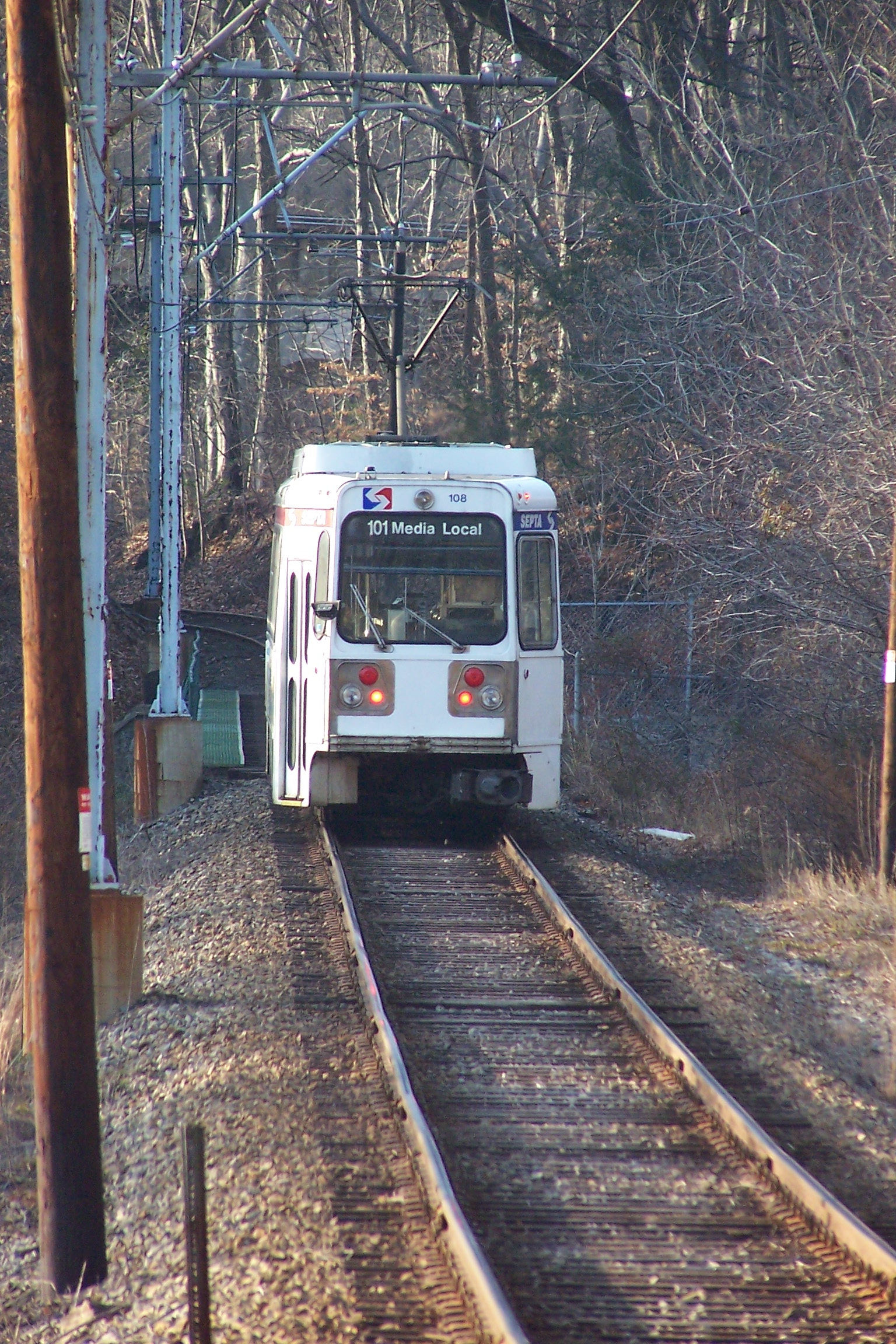 A SEPTA Route 101 trolley passes through Smedley Park near Media, PA. The trolley terminates in downtown Media, which still has a trolley operate down its main street.